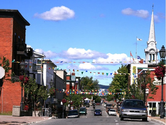 Centre ville de Thetford Mines.